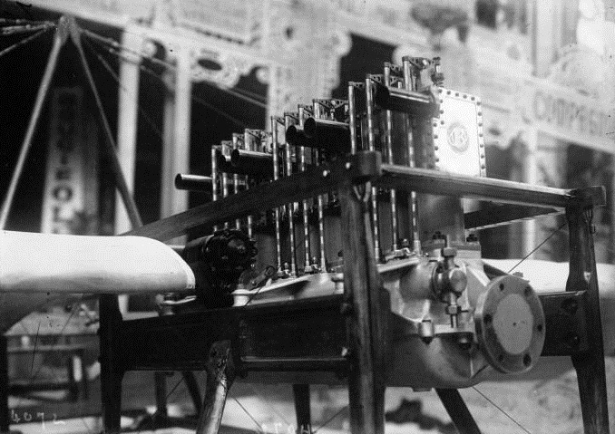 50 hp Buchet engine installed in Hanriot monoplane on display at the 1909 Paris Aero Salon